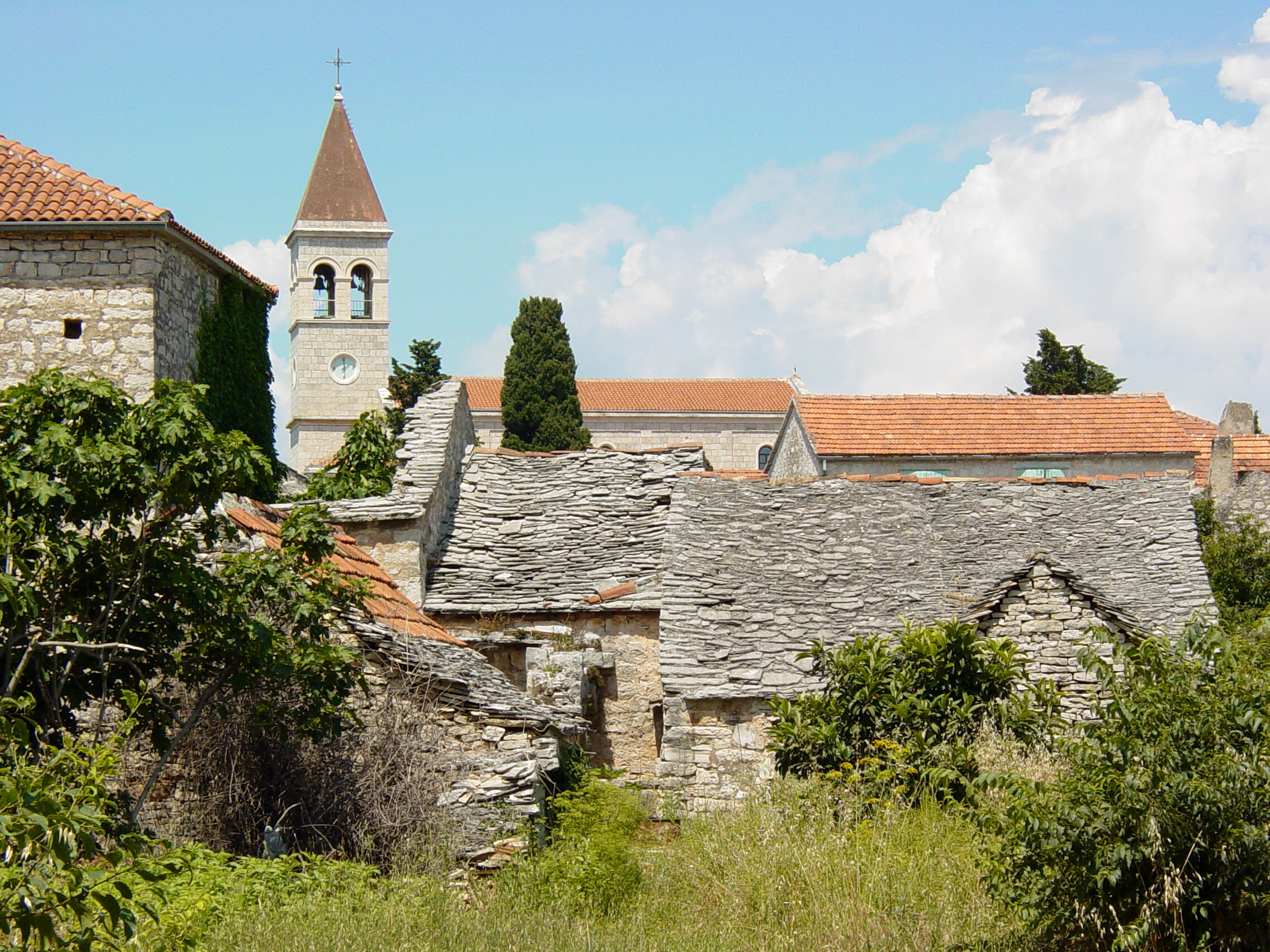 Church and farmhouses, Grohote, Solta Island, Croatia. June 2004.